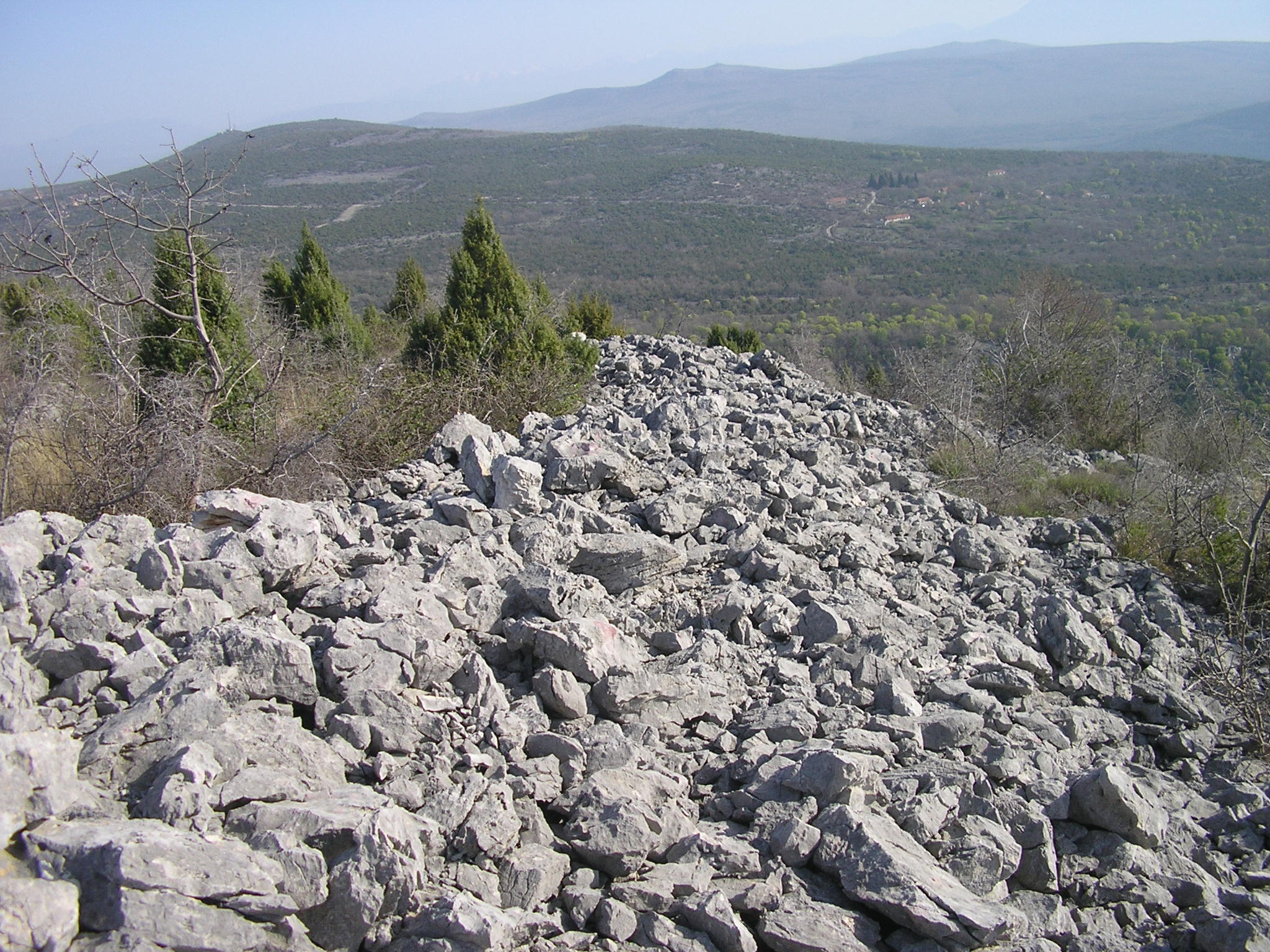 Drystone wall on hill-fort of Velika Mitruša